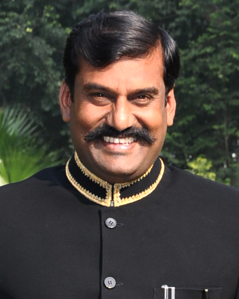 Mr.Nepoleon Duraisamy Minister of State for Social Justice and Empowerment in Union government 2009